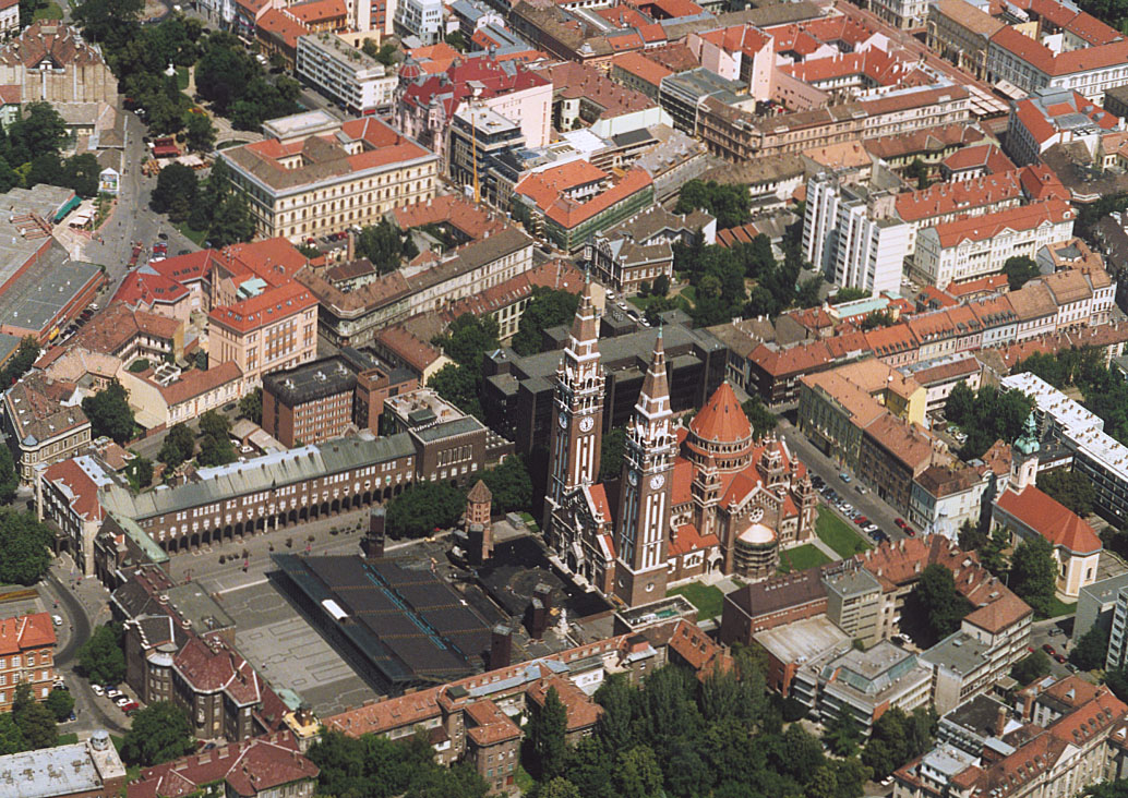 Szeged cathedral (Fogadalmi templom), Dömötör tower - Szeged, Hungary